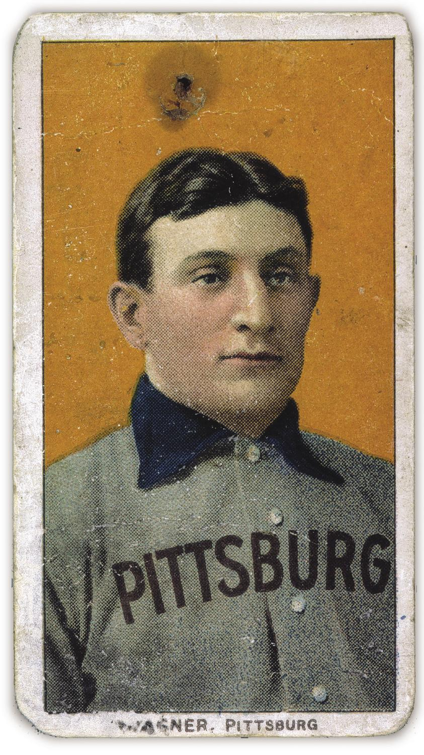 The famous Honus Wagner T206 card, circa 1910.